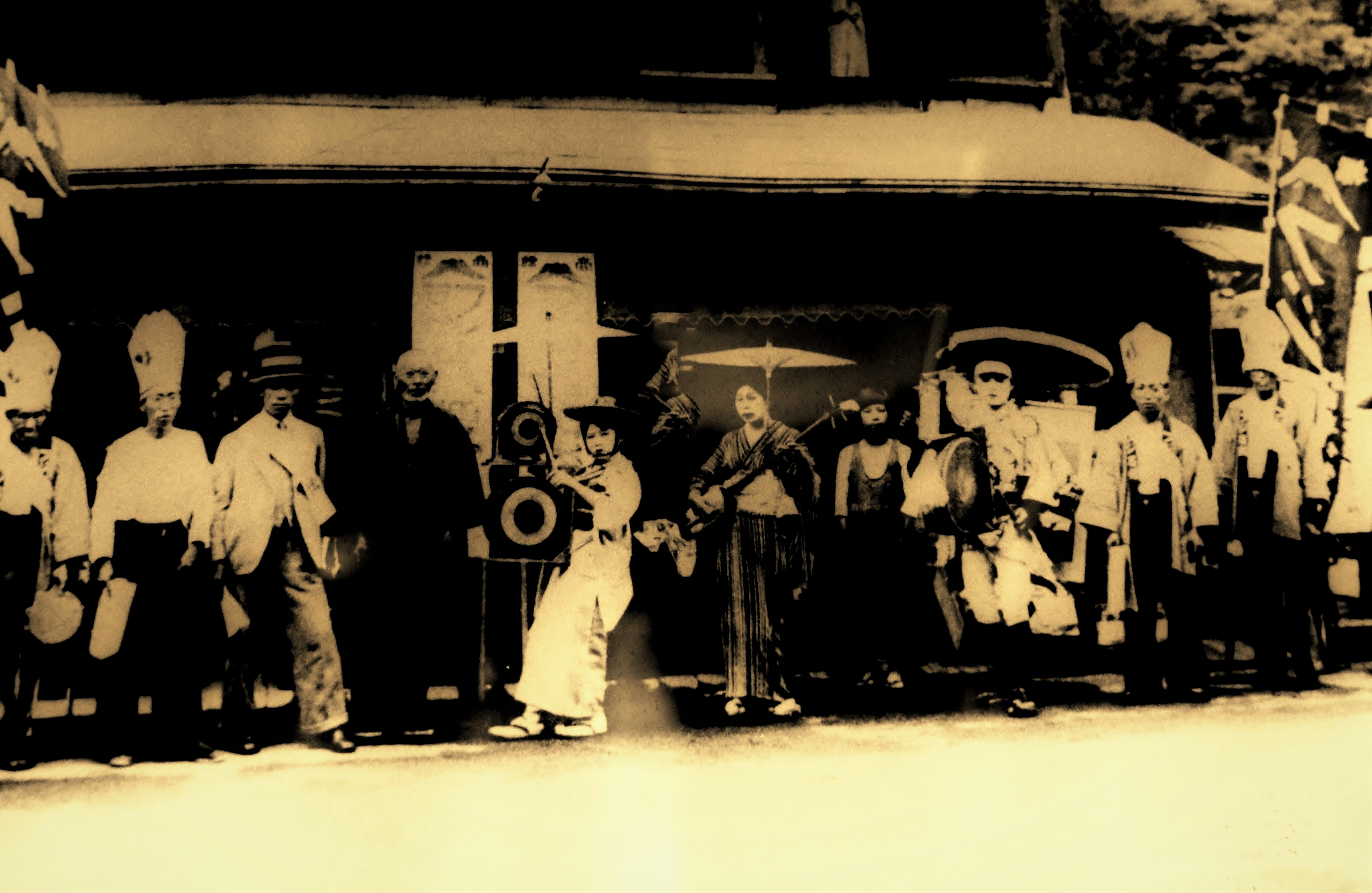 Kobayashi store opening celebration Chindonya. Yamura cho, Yamanashi Prefecture in 1935 circa.